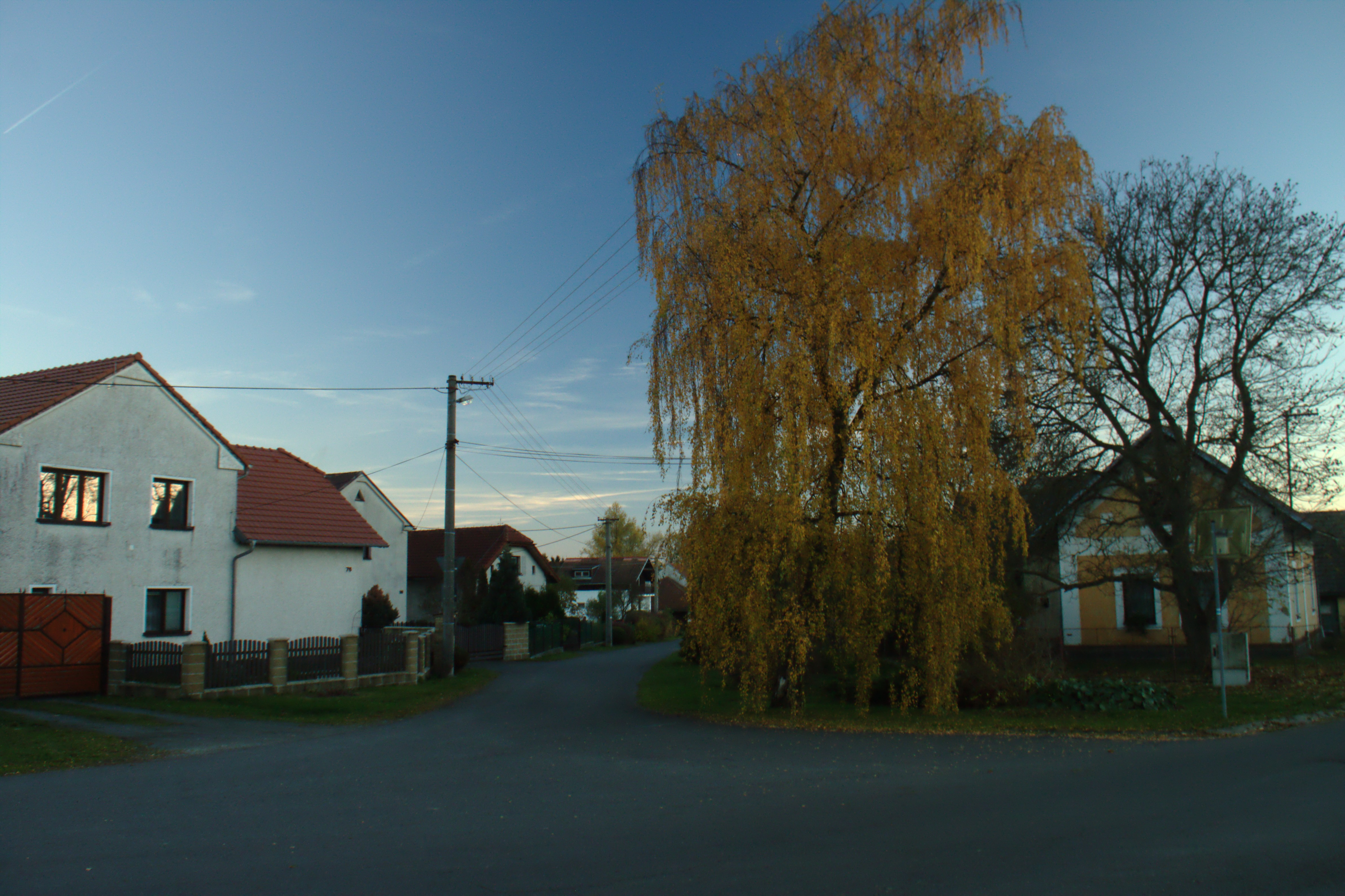 A road crossin in the village of Starý Smolivec, Central Bohemia, CZ